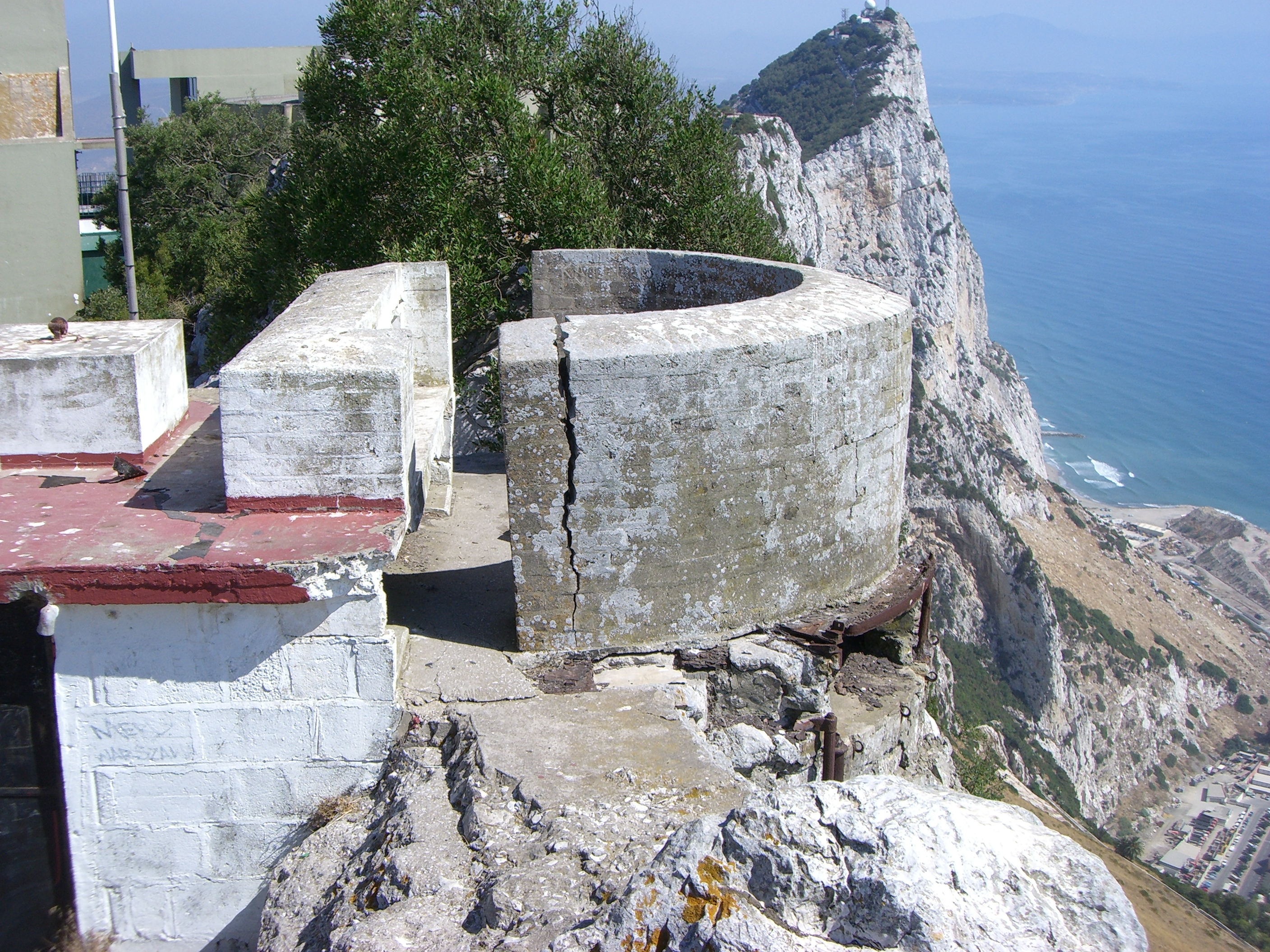 Gun emplacement at Signal Station, Gibraltar